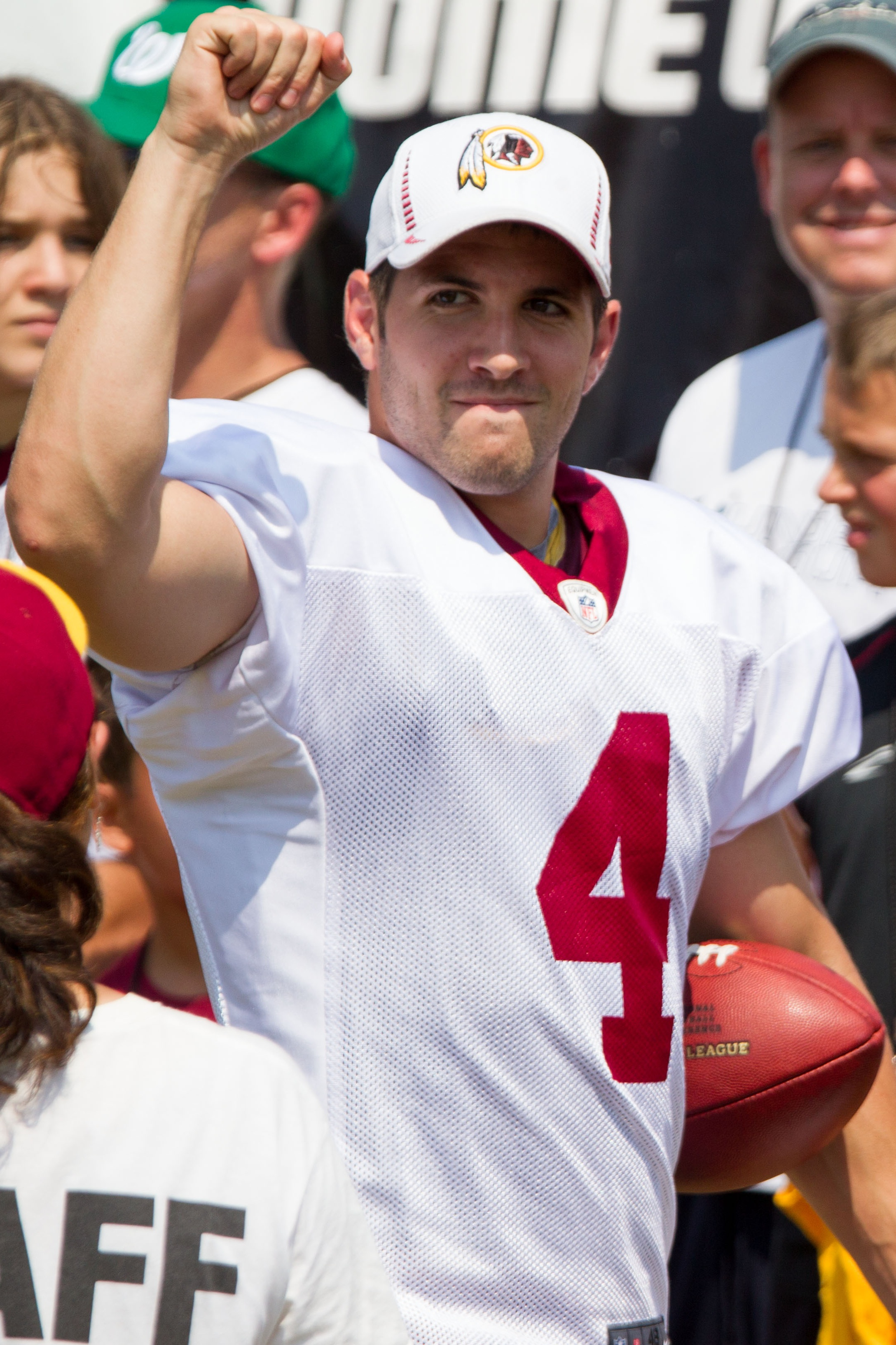 Graham Gano at Washington Redskins Training Camp August 1, 2012